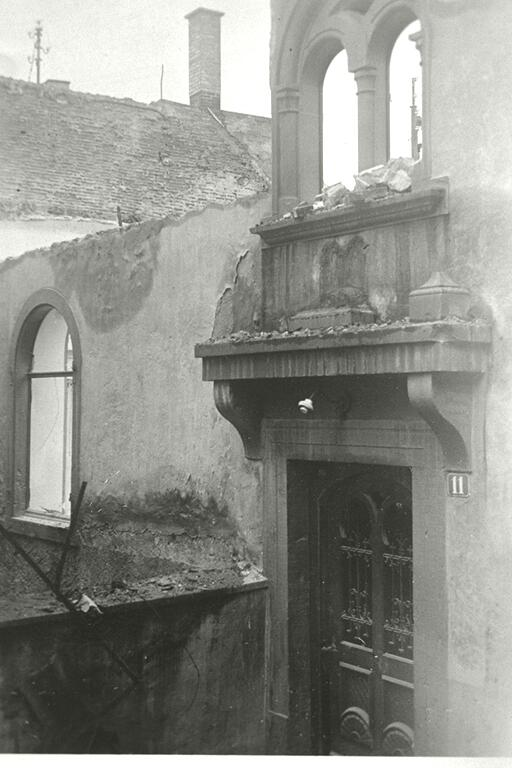 Description: Part of the destroyed synagogue at Teichstrasse 11; Loerrach, Germany Creator/Photographer: Unknown Medium: Black and white photographic print Date: 10 November 1938 Repository:Leo Baeck Institute Parent Collection: Herbert Guenzburger Collection Call Number: AR 5947 Rights Information: No known copyright restrictions; may be subject to third party rights. For more copyright information, click here. Find more information about this image and others at CJH Archives and Library Catalog.